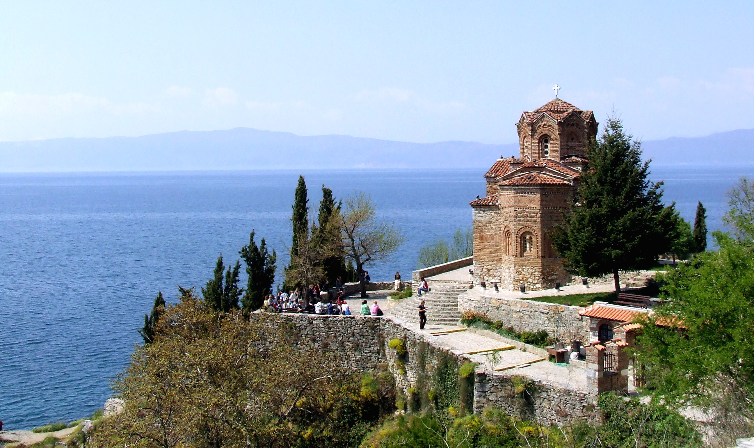 Lake Ohrid straddles the mountainous border between the southwestern region of the Republic of Macedonia and eastern Albania.